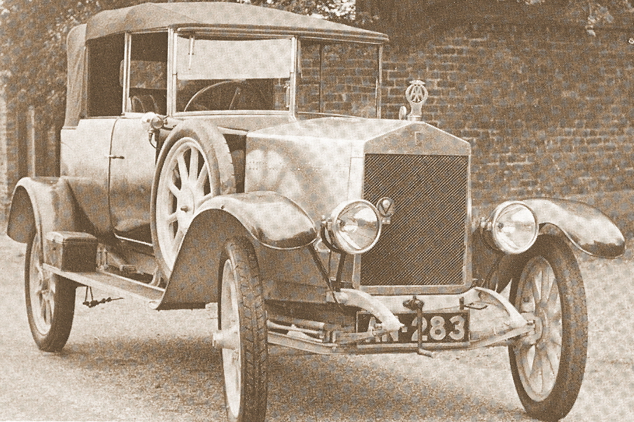 1920 Albert 11.9 hp, Type G3